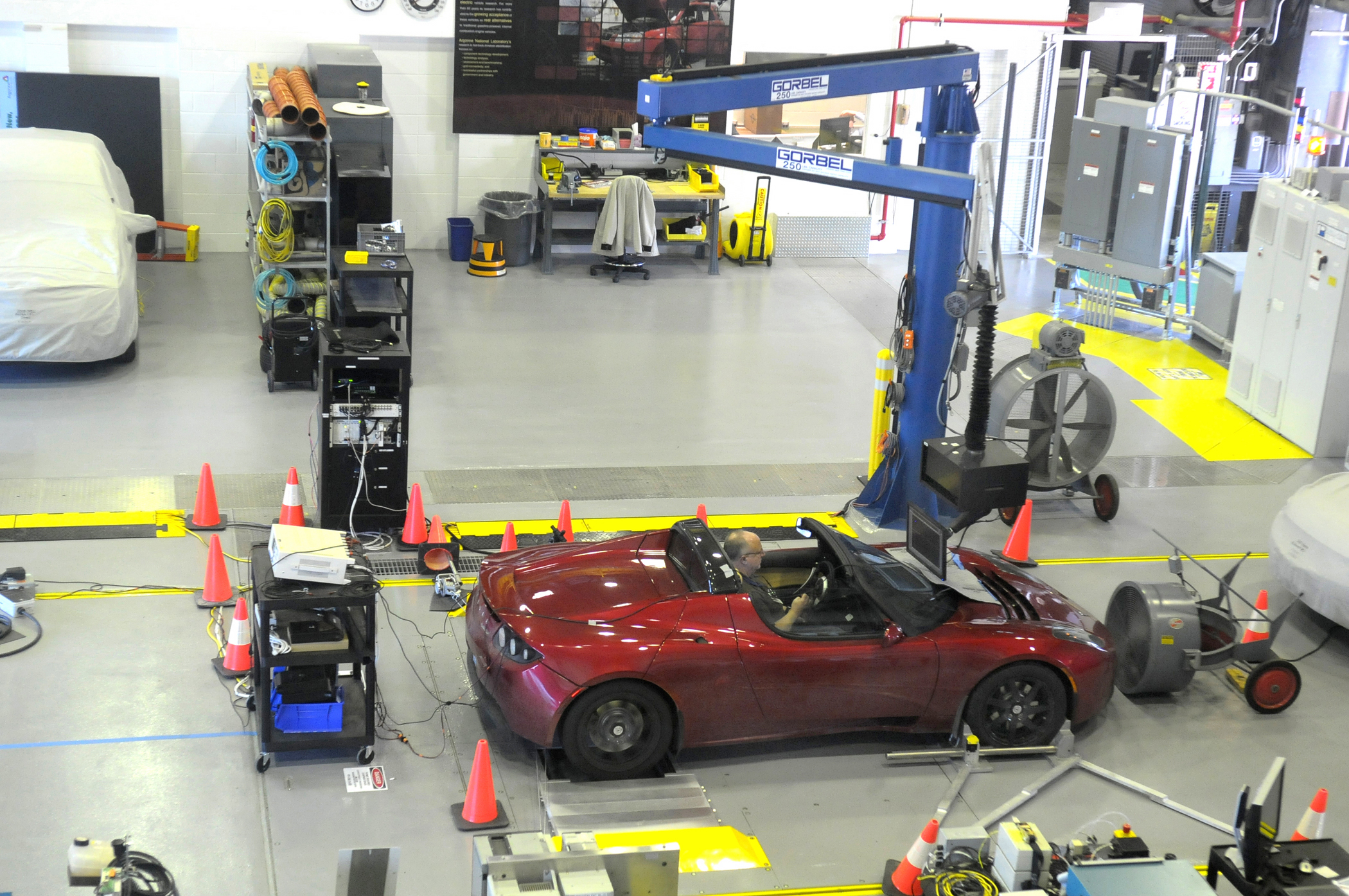 Geoff Amann, senior technician at Argonne’s Advanced Powertrain Research Facility, takes the all-electric Tesla Roadster through a driving cycle at the Lab’s two-wheel dynamometer laboratory. Data obtained from the Tesla will help researchers develop test procedures that provide an unbiased, consistent and practical approach to evaluating electric vehicles.